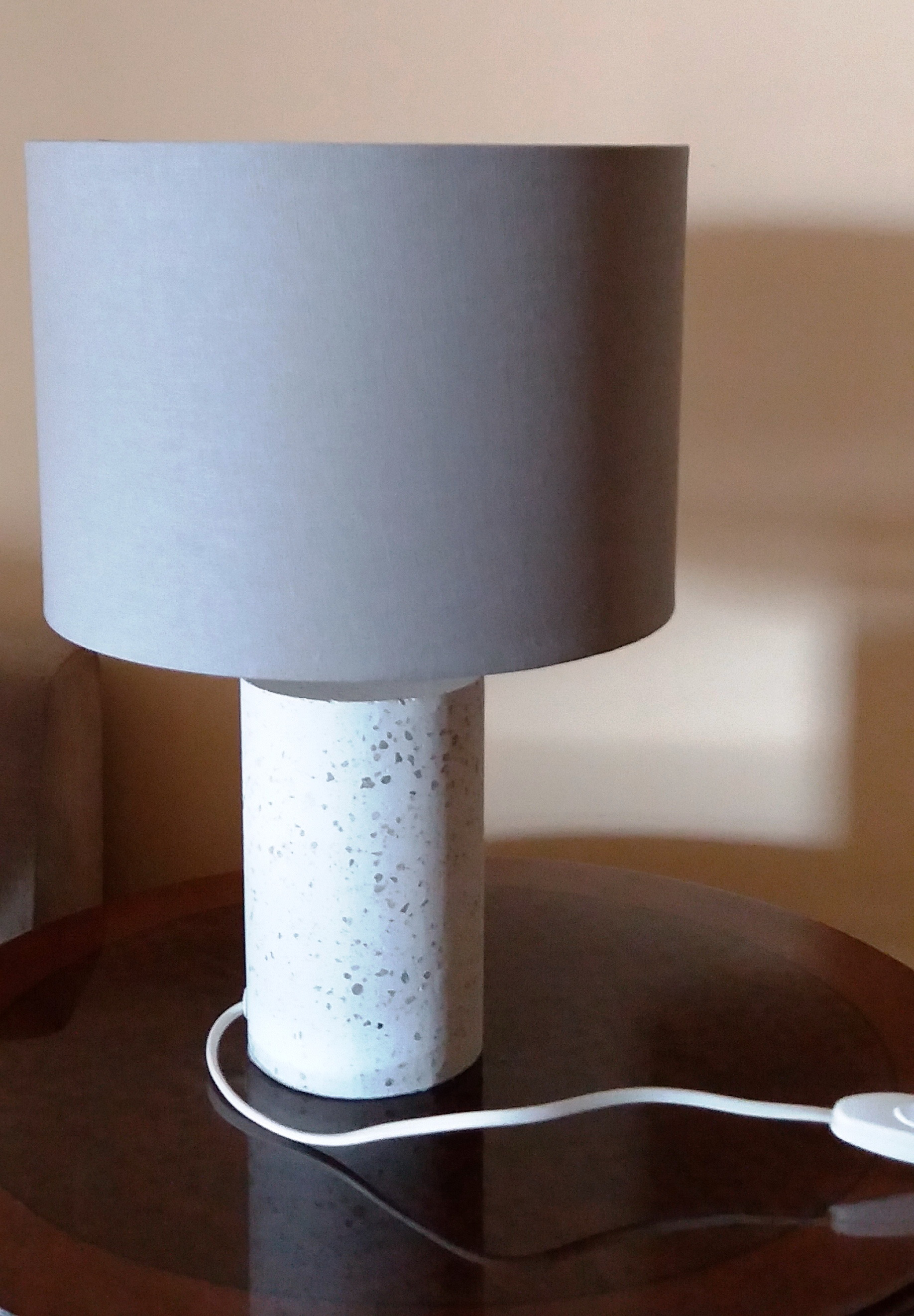 Table lamp